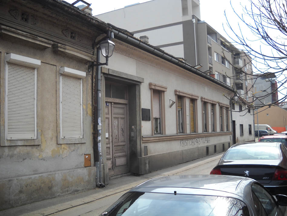 Bulding in Novi Sad, Gajeva 30 Street - Seat of the Local Community "Žitni Trg" and former seat of the Drama Art Scene.